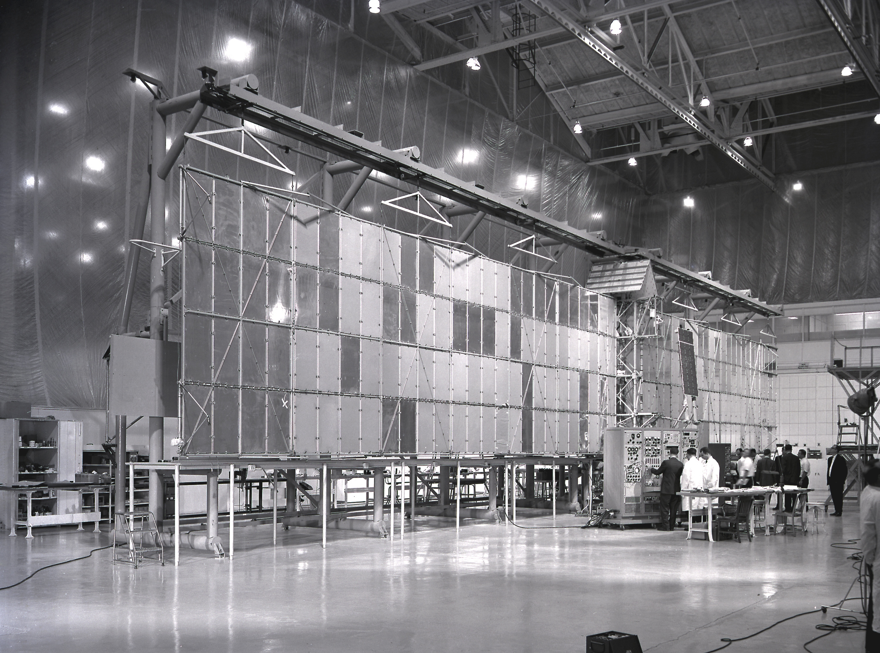 Detector arrys of an Pegasus satellite Orginal relase to the picture: Fairchild technicians check out the extended Pegasus meteoroid detection surface. The Pegasus was developed by Fairchild Stratos Corporation, Hagerstown, Maryland, for NASA through the Marshall Space Flight Center. Three Pegasus satellites were flown aboard Saturn I SA-8, SA-9, and SA-10 missions. After being placed into orbit around the Earth, the satellite unfolded a series of giant panels to form a pair of wings measuring 96 feet across. The purpose of the satellite was to electronically record the size and frequency of particles in space, and compare the performance of protected and unprotected solar cells as important new preliminaries to a marned flight to the Moon.